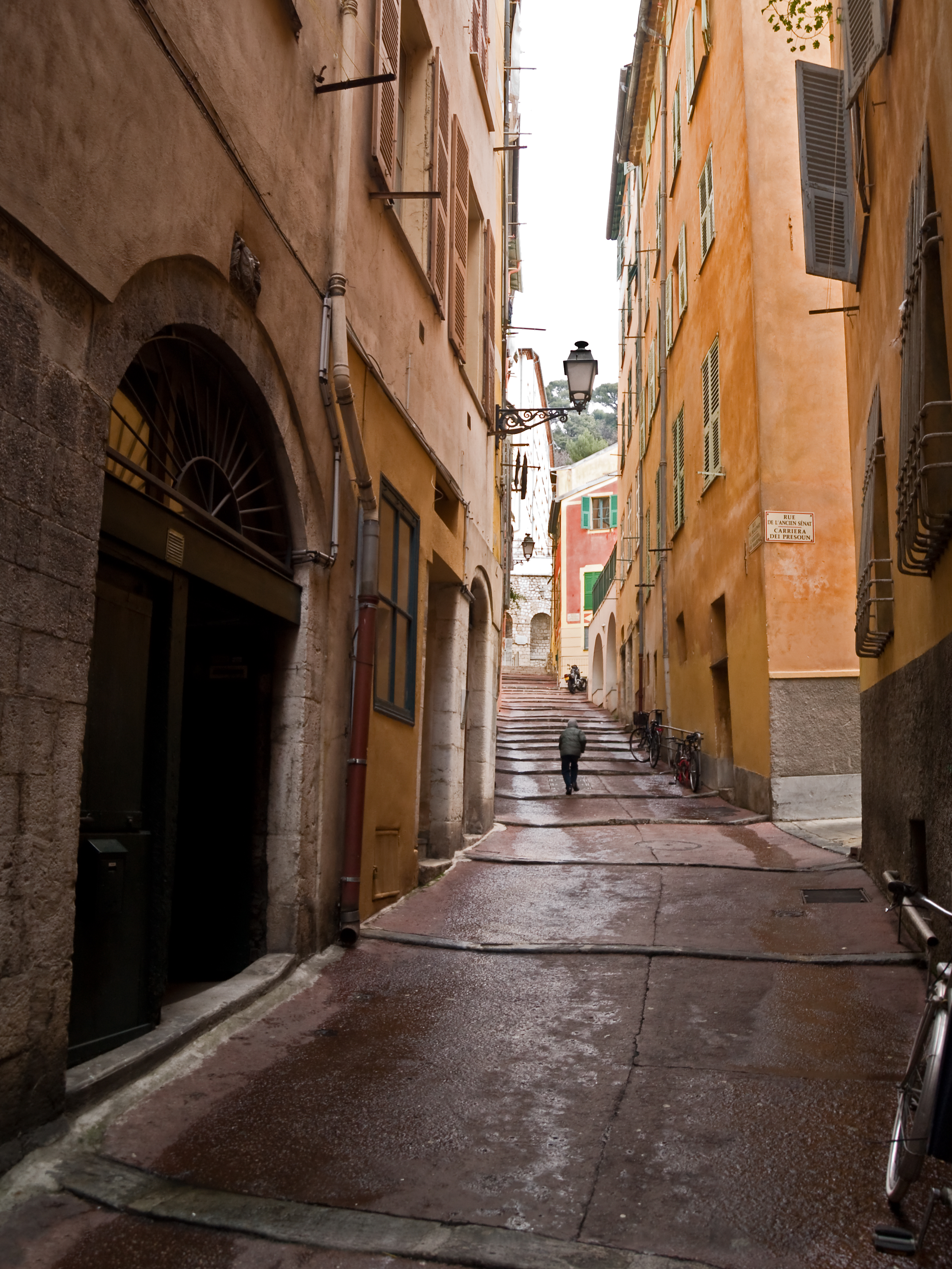 Rue du Malonat, in the old town of Nice (Vieux-Nice), on the French Riviera (Alpes-Maritimes, France).